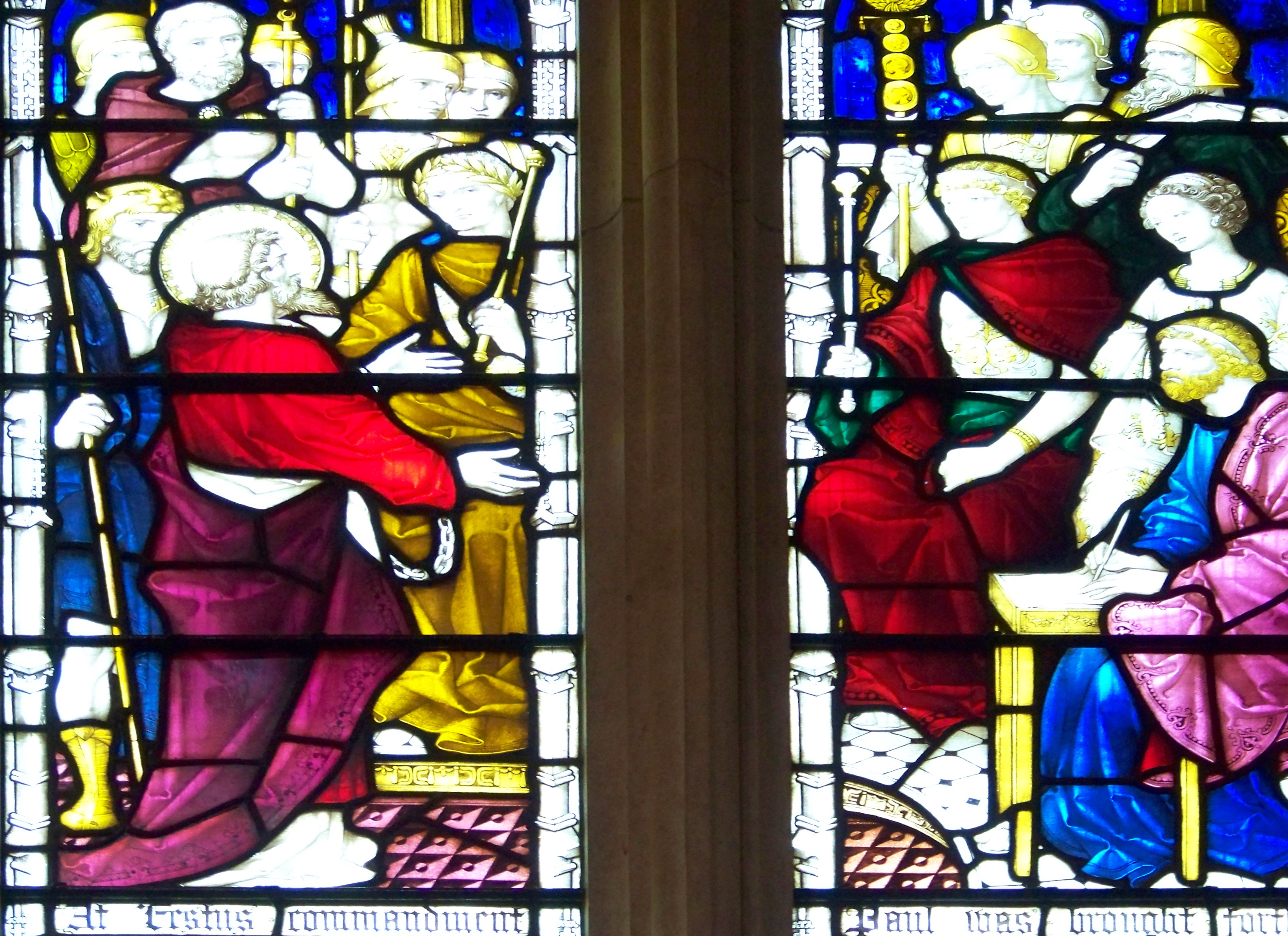 Stained glass window in St Paul's Cathedral, Melbourne, depicting a scene from the Book of Acts with St. Paul, Porcius Festus, Agrippa and Berenice